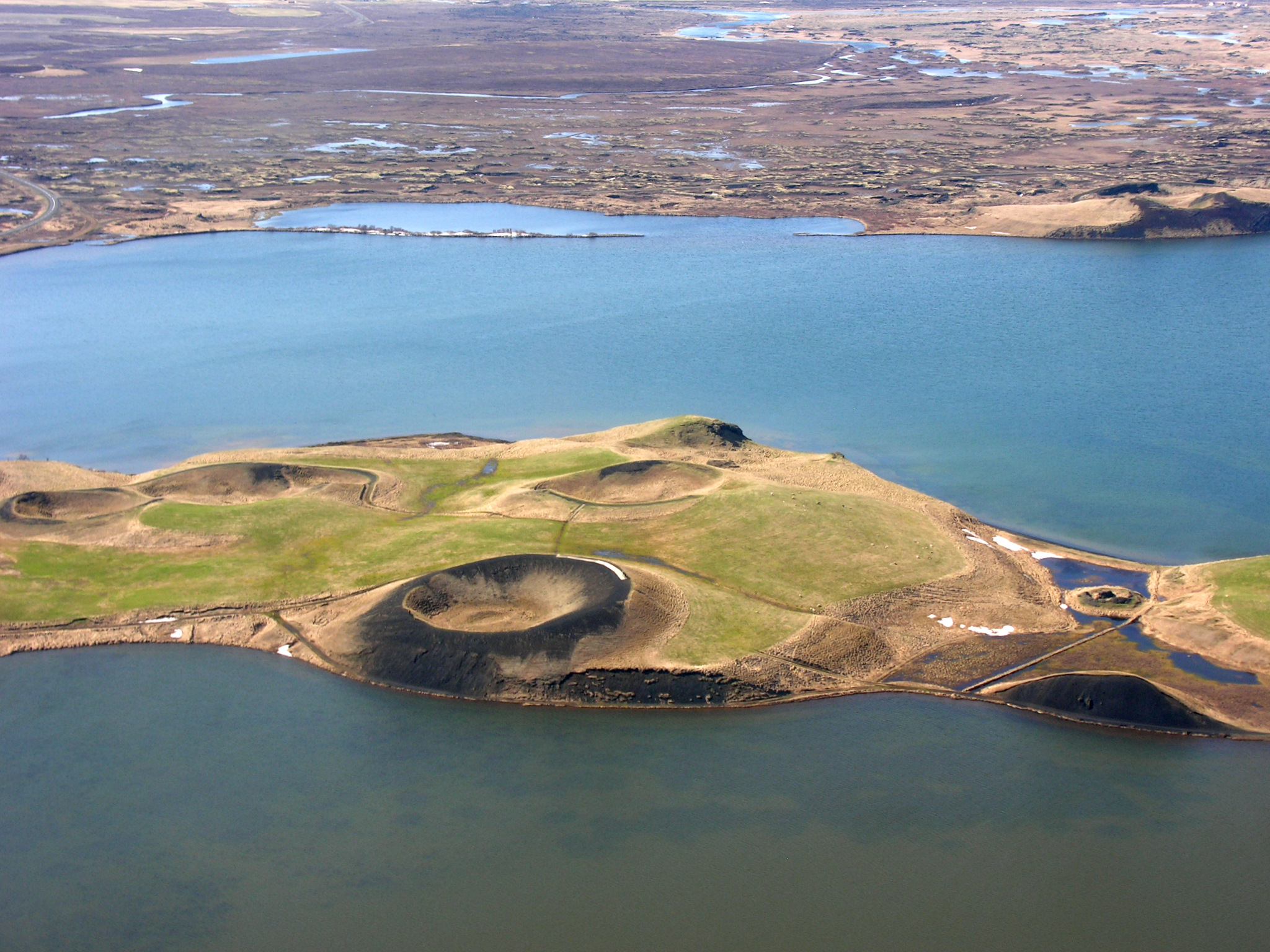 Aerial View of Pseudo Craters at Mývatn